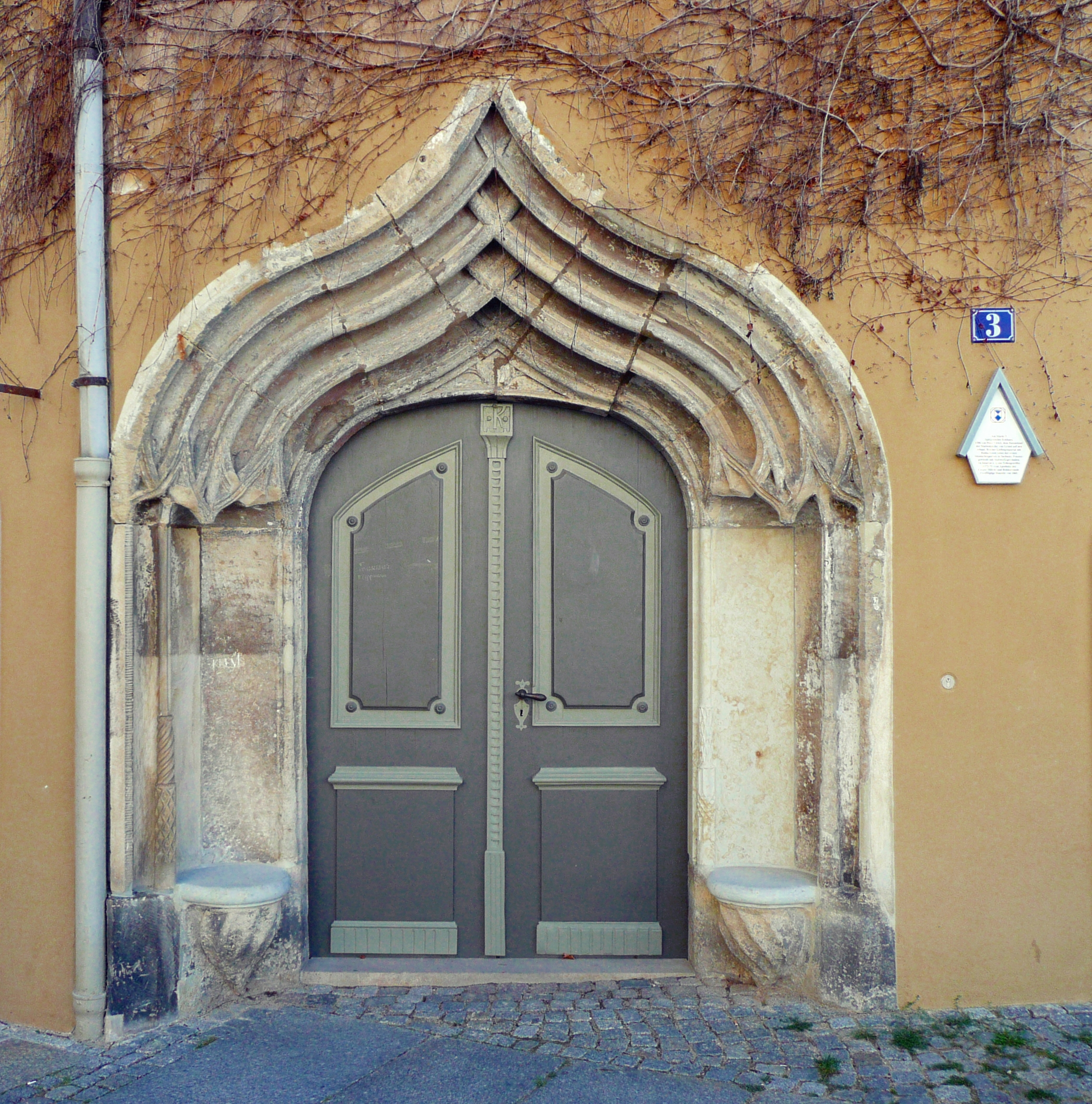 Pirna. Gothic ogee-arched portal (1506) of the Peter-Ulrich-Haus (Am Markt 3).